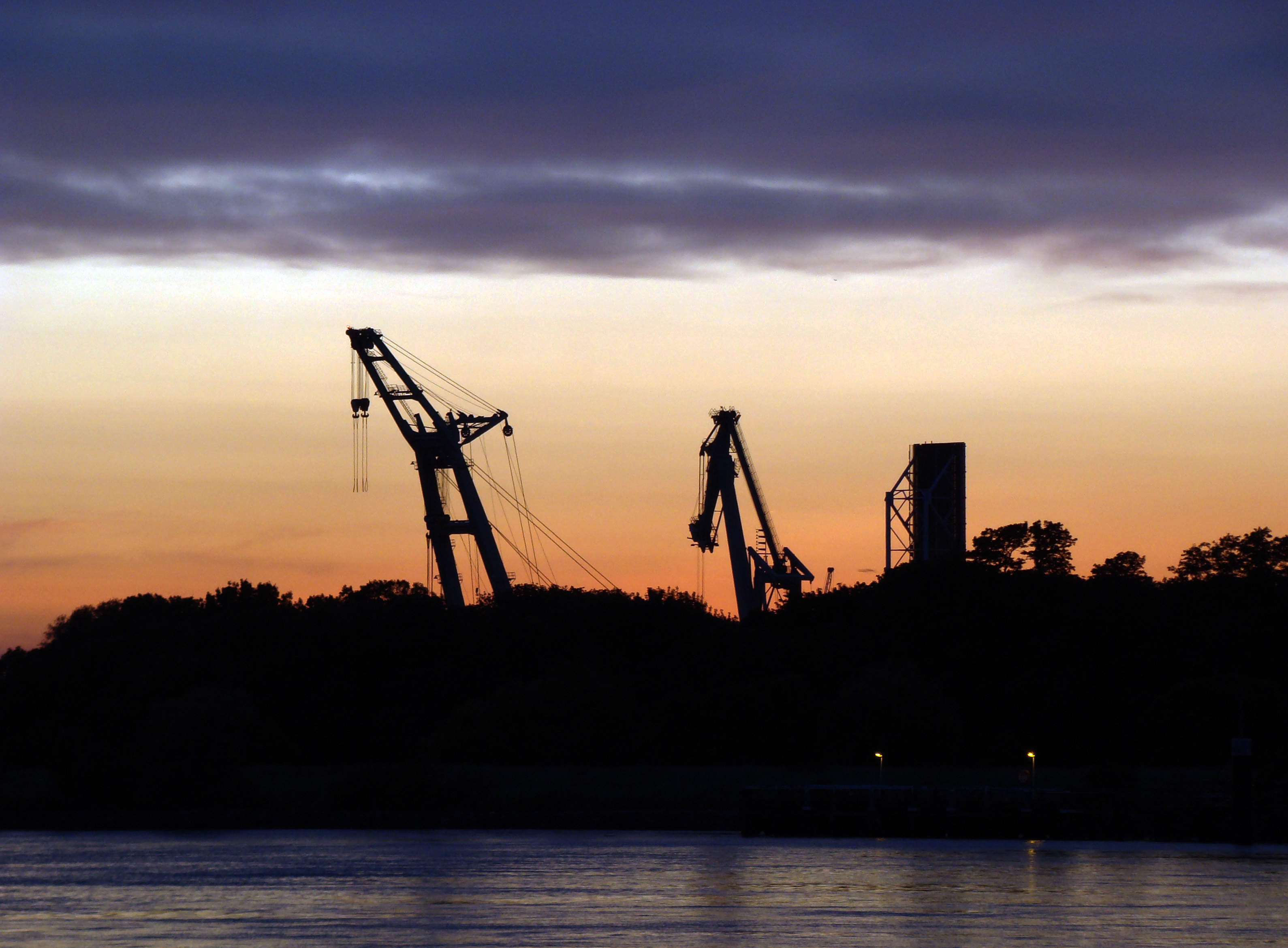 The floating cranes as viewed from Kattendijksluis